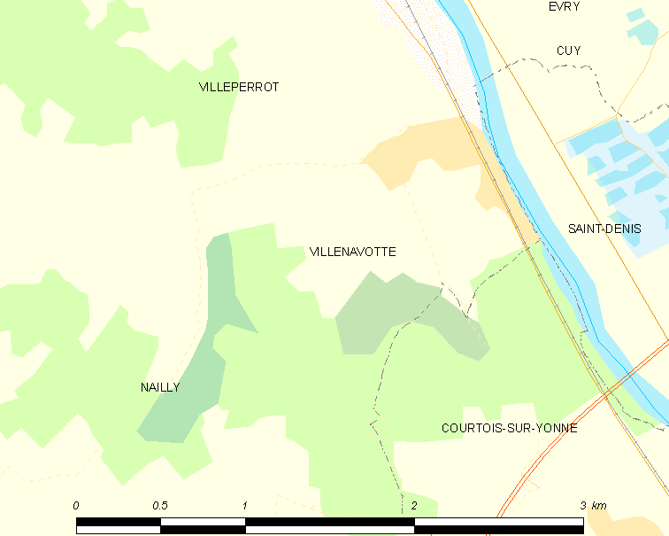 Map of French municipality Villenavotte